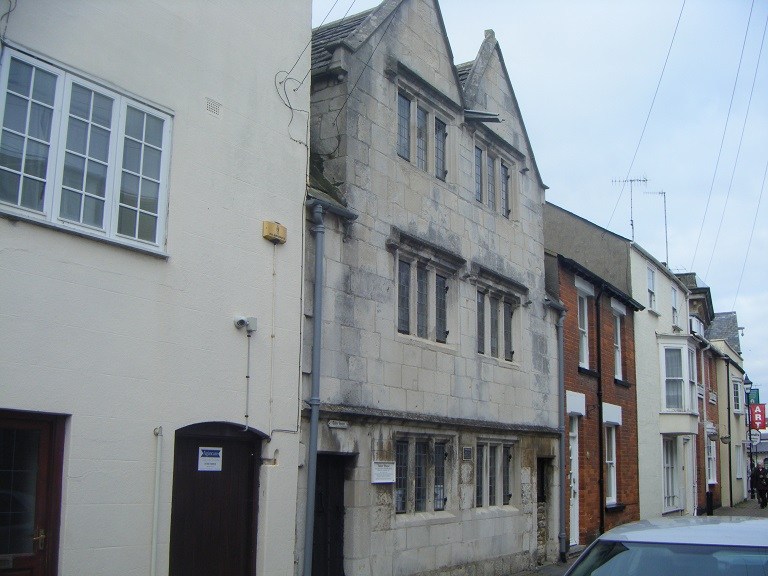 Tudor House Museum, Weymouth, Dorset